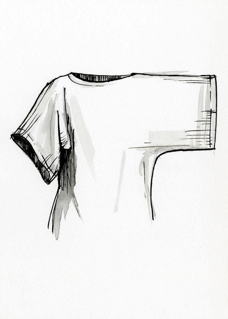 Drawing of the Thesaurus concept : 'kimono sleeve'